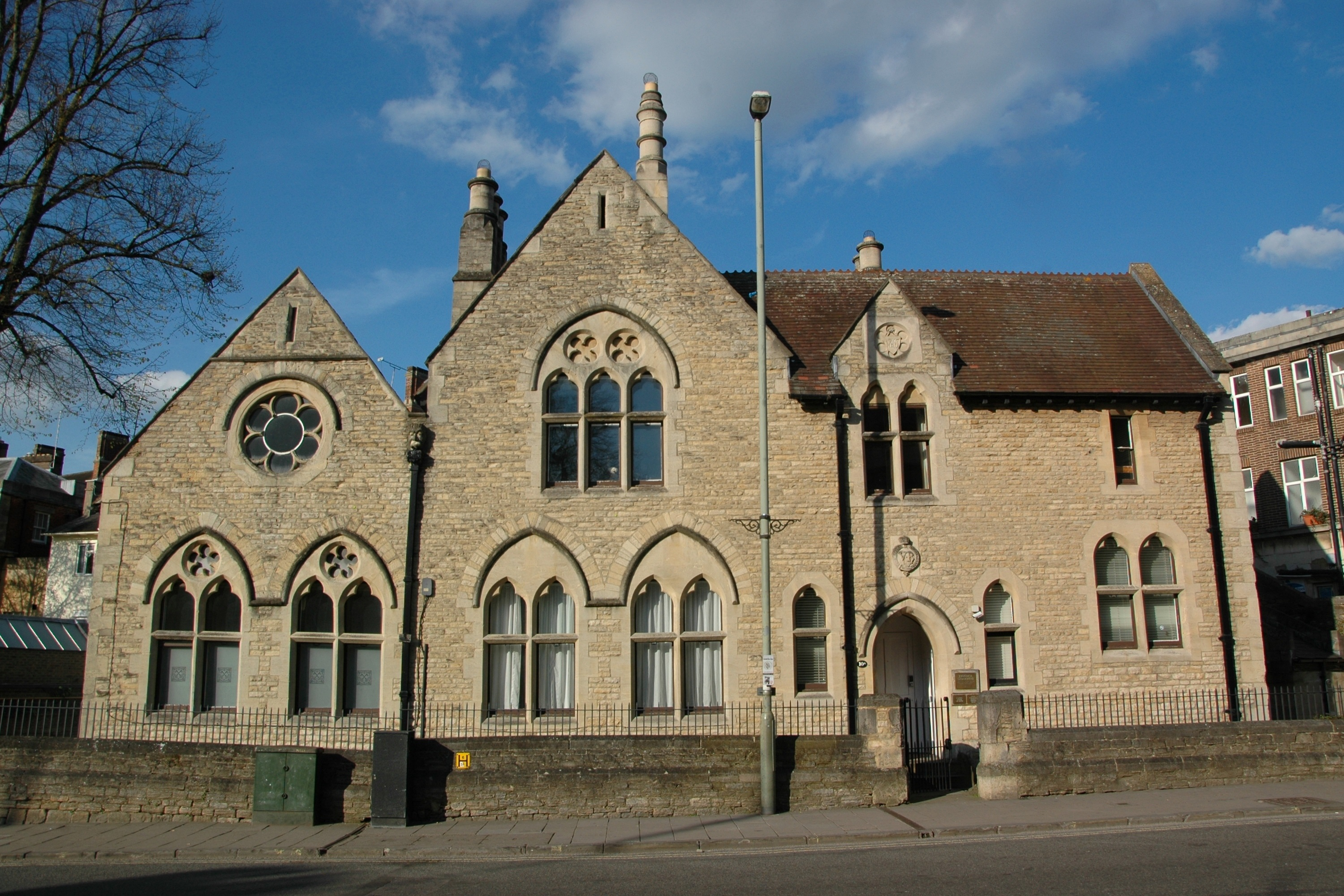 Former probate registry, 10A New Road, Oxford: designed by Charles Buckeridge and built 1864